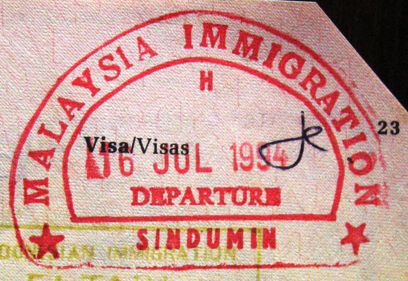 A 1994 passport stamp for exiting Sabah from the Sabah-Sarawak crossing checkpoint at Sindumin, Sabah